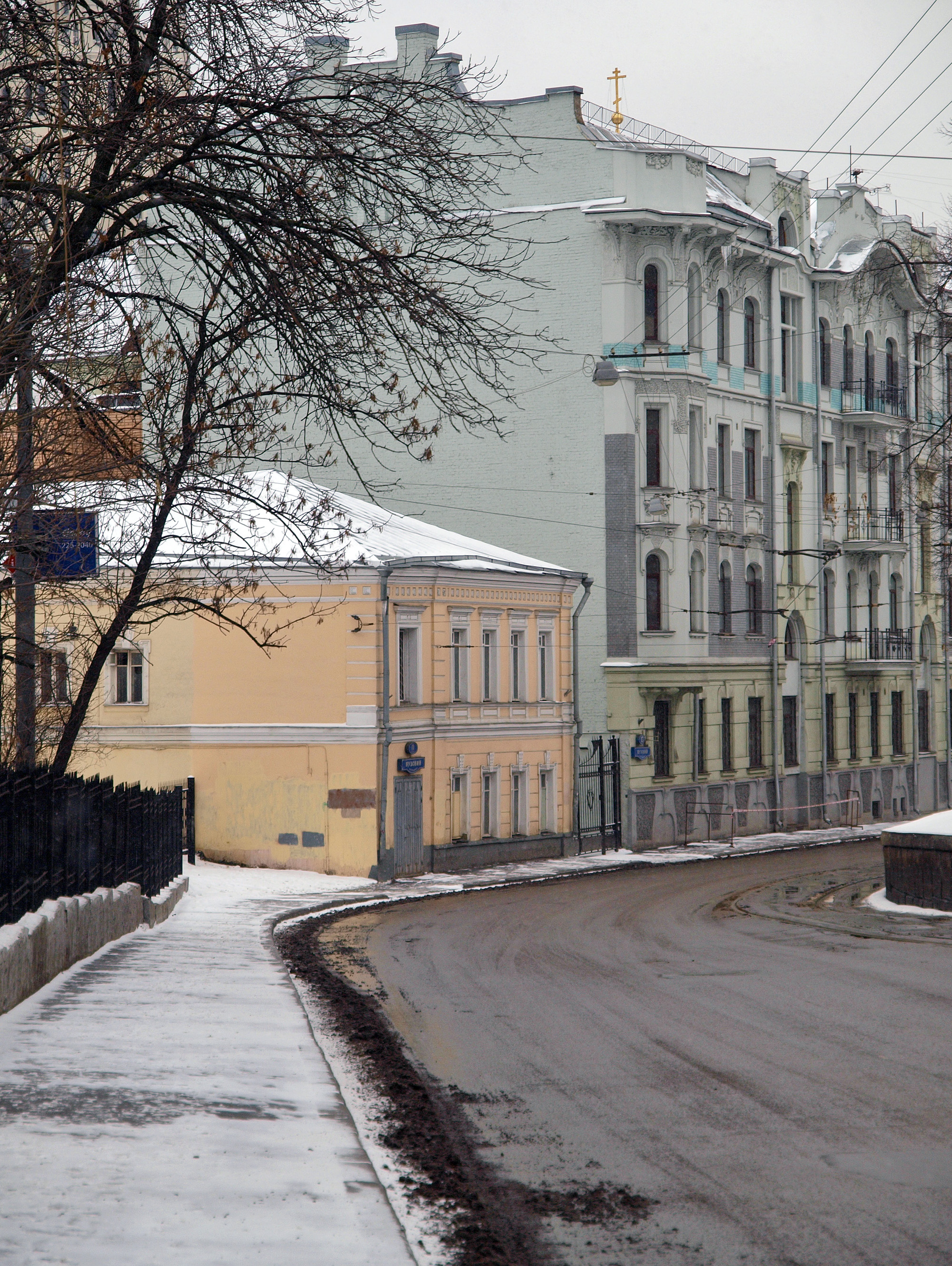 Yauzsky Boulevard, Moscow.